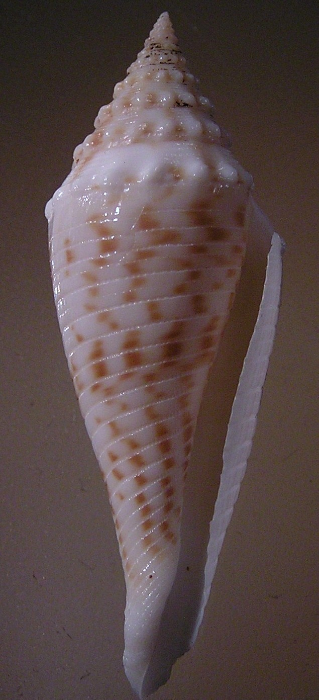 Conasprella elokismenos (Kilburn, 1975) , a cone snail in the family Conidae; South Africa